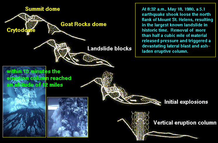 Mount St. Helens sequence of events on May 18, 1980.